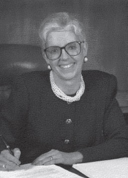 Nancy E. Bone is an American former intelligence officer who served as Director of National Photographic Interpretation Center between October 1993 and September 1996.